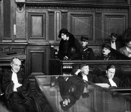 Violette Nozière at her criminal trial in 1934.